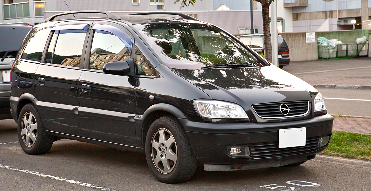 Opel Zafira A 1.8 CDX